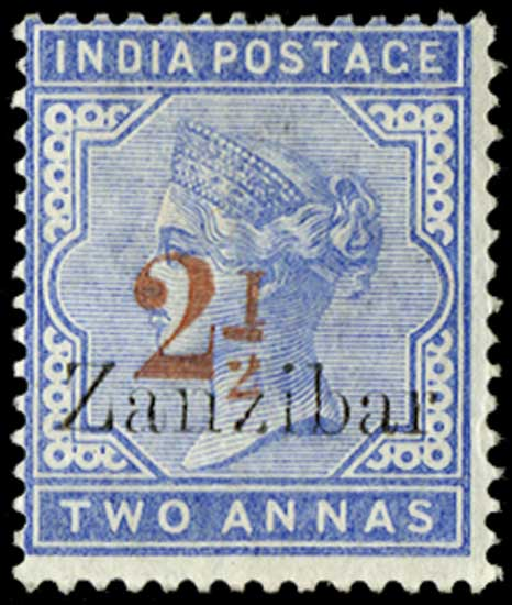 '2½' (type 7) on 2 anna Zanzibar overprint Indian stamp of 1896 (15 Aug), pale blue, variety inverted '1' in '½' from R5/6 of setting.